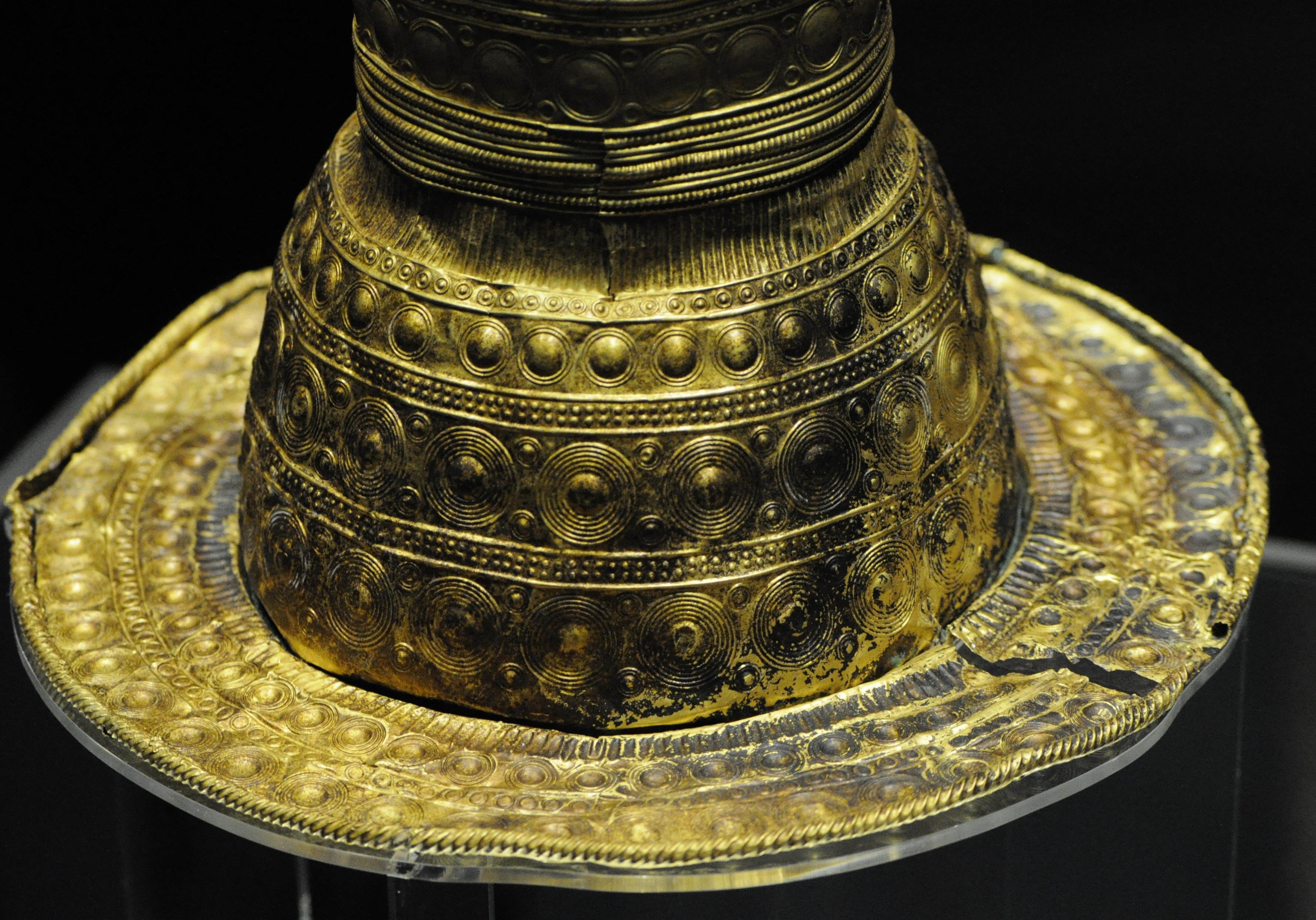 Detail of the "Goldhut" of Berlin